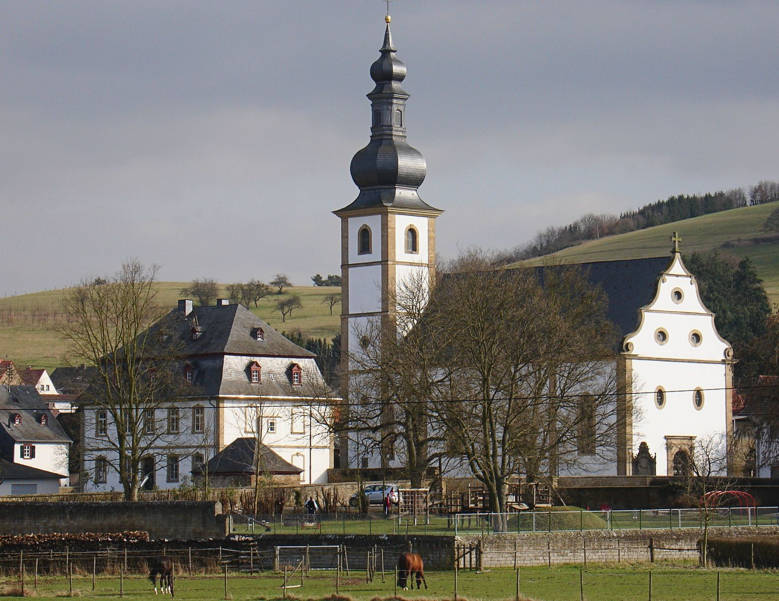 Germany/Rhineland-Palatinate/Staudernheim - Picture March 2009 - Staudernheim Catholic Church "Johann Baptist" from 1768